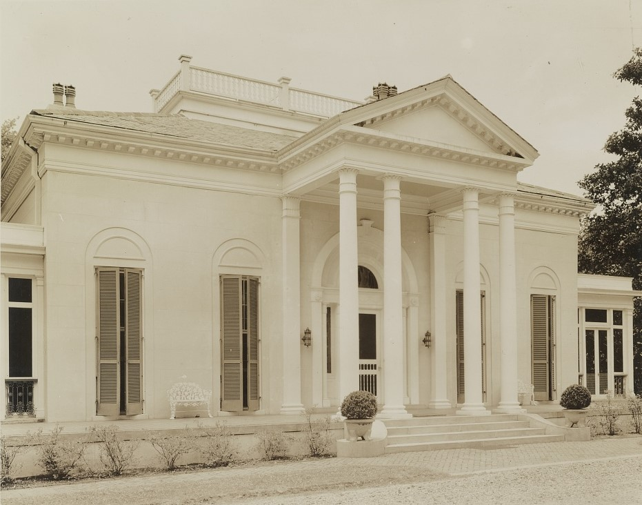 Title Monteigne, Natchez, Adams County, Mississippi Contributor Names Johnston, Frances Benjamin, 1864-1952, photographer Created / Published 1938. Subject Headings - United States--Mississippi--Adams County--Natchez - Porticoes (Porches). - Shutters. - Pediments. - Columns. - Houses. - Mississippi--Adams County--Natchez Format Headings Photographic prints. Notes - Title from photographer's inventory. - Built by Gen. Wm. T. Martin. This is an important house and splendid gardens. French handblocked Zuber wallpaper, black and white mosaic floors, Venetian chandeliers. - Building/structure dates: 1855. - Corresponding Carnegie Survey of the Architecture of the South neg. no. 1060. Library has no record of having this neg. - Related names: Mrs. Mary W. Kendall; Mr. Wm. Kendall. - Gift; Anne E. Peterson; 2011; (DLC/PP-2011:206) - Forms part of: Carnegie Survey of the Architecture of the South (Library of Congress). Medium 1 photographic print. Call Number/Physical Location LOT 11838-1 [item] [P&P] Repository Library of Congress Prints and Photographs Division Washington, D.C. 20540 USA Digital Id ppmsca 32371 //hdl.loc.gov/loc.pnp/ppmsca.32371 Control Number csas201207199 Reproduction Number LC-DIG-ppmsca-32371 (digital file from photograph) Rights Advisory No known restrictions on publication. Online Format image Description 1 photographic print.